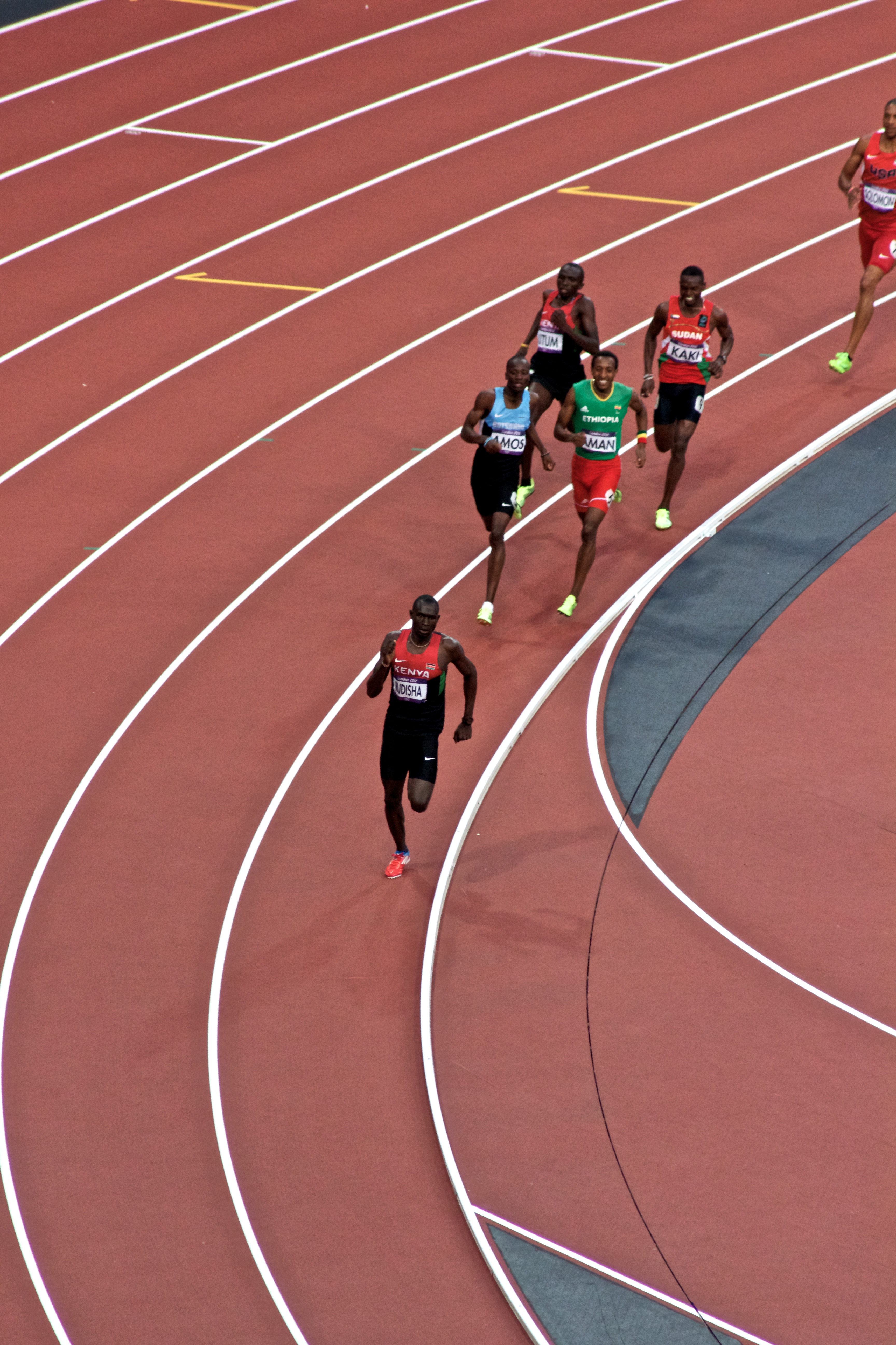 David Rudisha broke the world record during 800 m final at London 2012